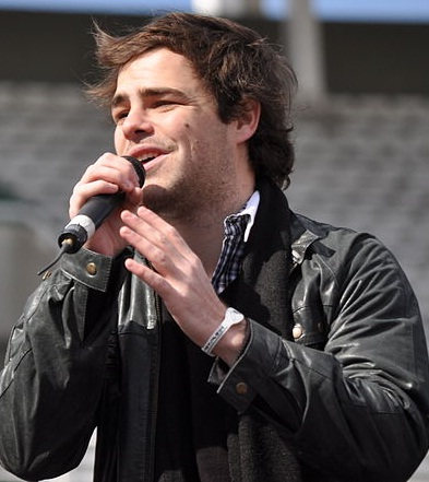 Juan Pedro Lanzani from Teen Angels at a concert in Cordoba, Argentina.